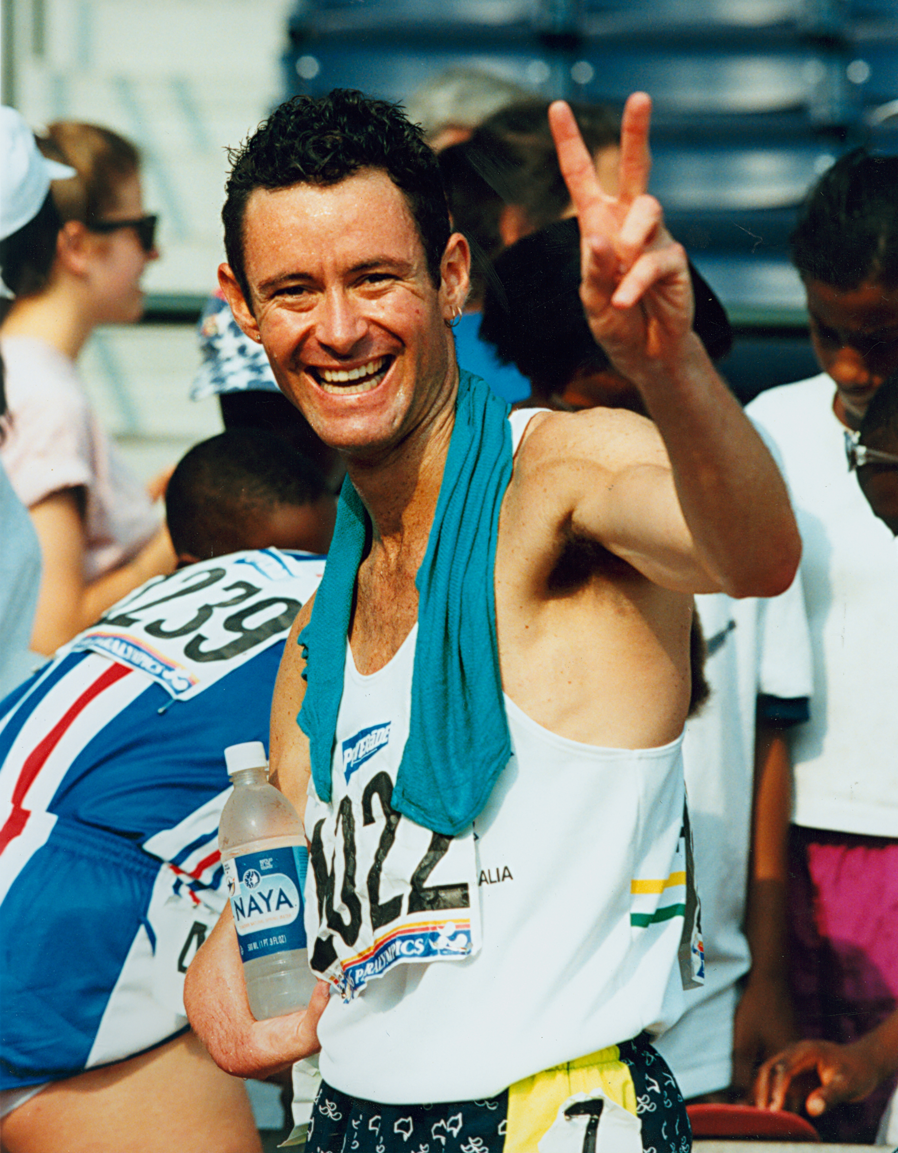 Australian athletics gold medallist David Evans at the Atlanta 1996 Paralympic Games.